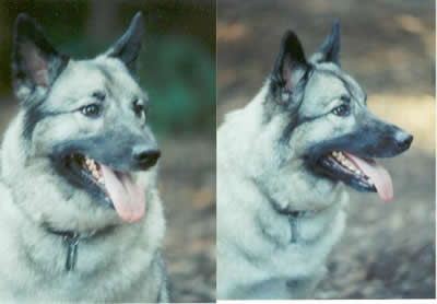 Quarter and profile views of adult female Norwegian Elkhound head.